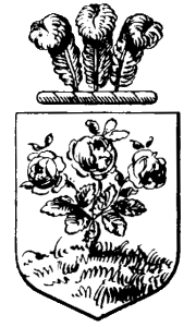 Arms of the Roosevelt Family